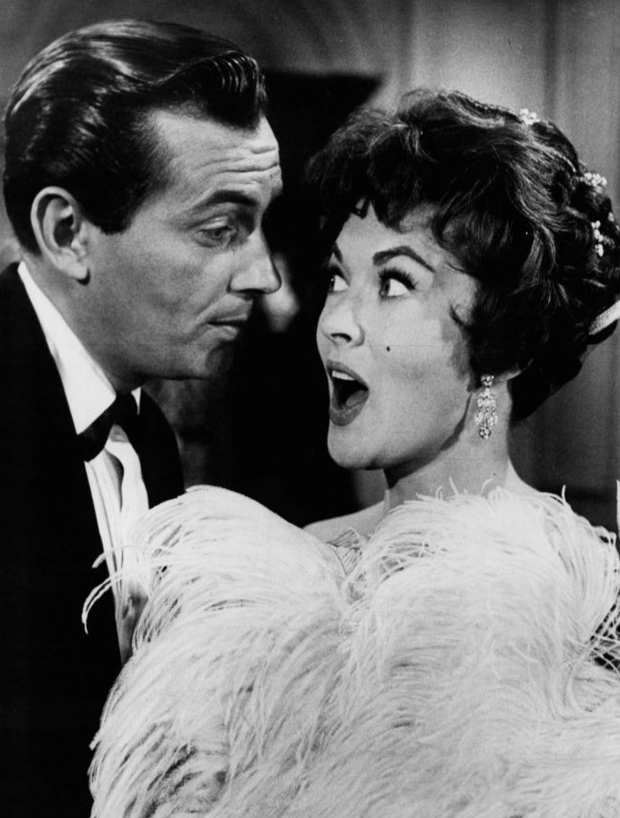 Photo of Jack Kelly as Bart Maverick and guest star Paula Raymond from the television program Maverick.